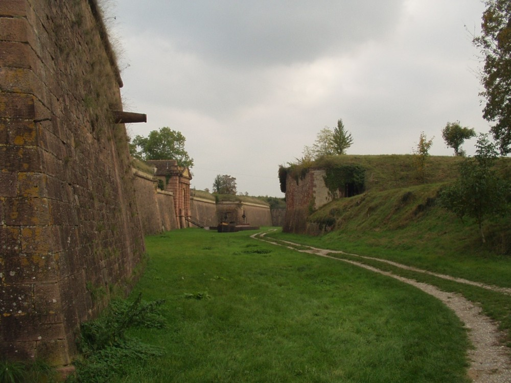 Description = Neuf-Brisach (Alsace/France) Author = Philipp Hertzog